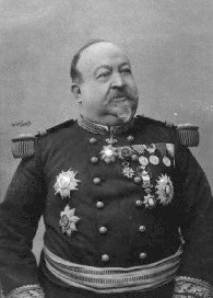 Photograph of Lieutenant-Colonel Ange-Laurent Giovanninelli (1839-1903)